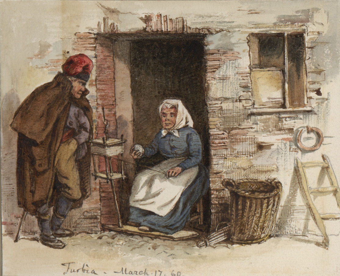 Examples of artwork on a variety of subjects and in a variety of styles by Francis Elizabeth Wynne from a sketchbook (ca. 420 drawings): mixed media, including watercolour, wash and, pen and ink.